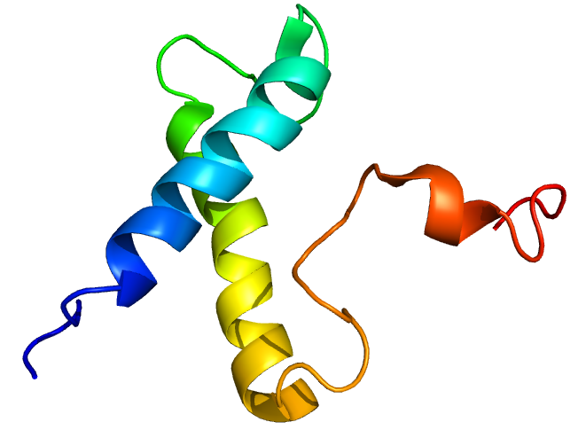 FO subunit F6 from the peripheral stalk region of ATP synthase. Created in PyMol based on PDB structure 1VZS.